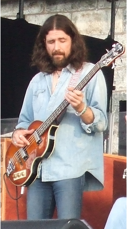 Sven Pipien playing bass guitar with the Black Crowes at the 2008 Newport Folk Festival